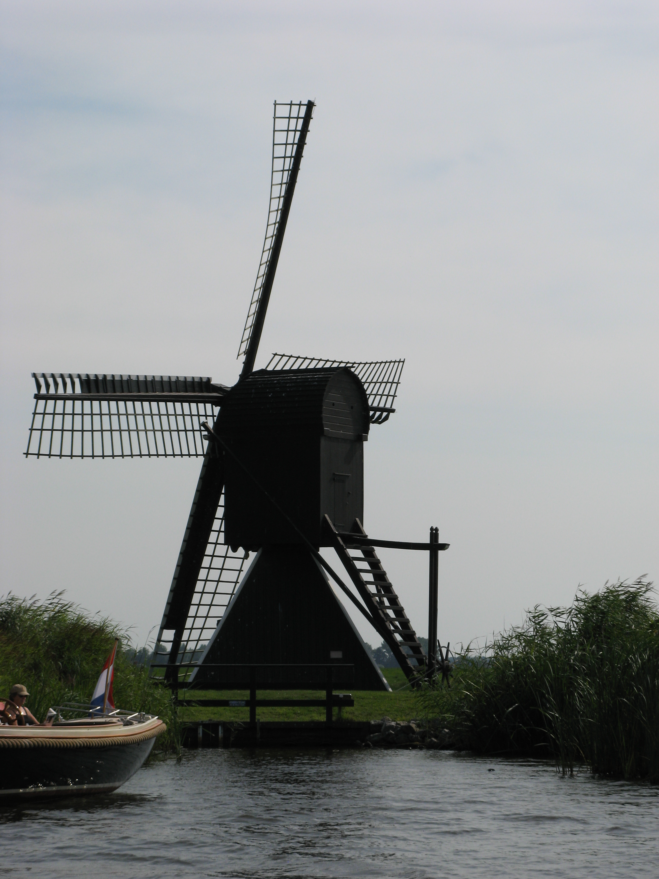 Restored spiderhead drainage windmill Roekmolen, seen from the lake Sitebuorster Ie